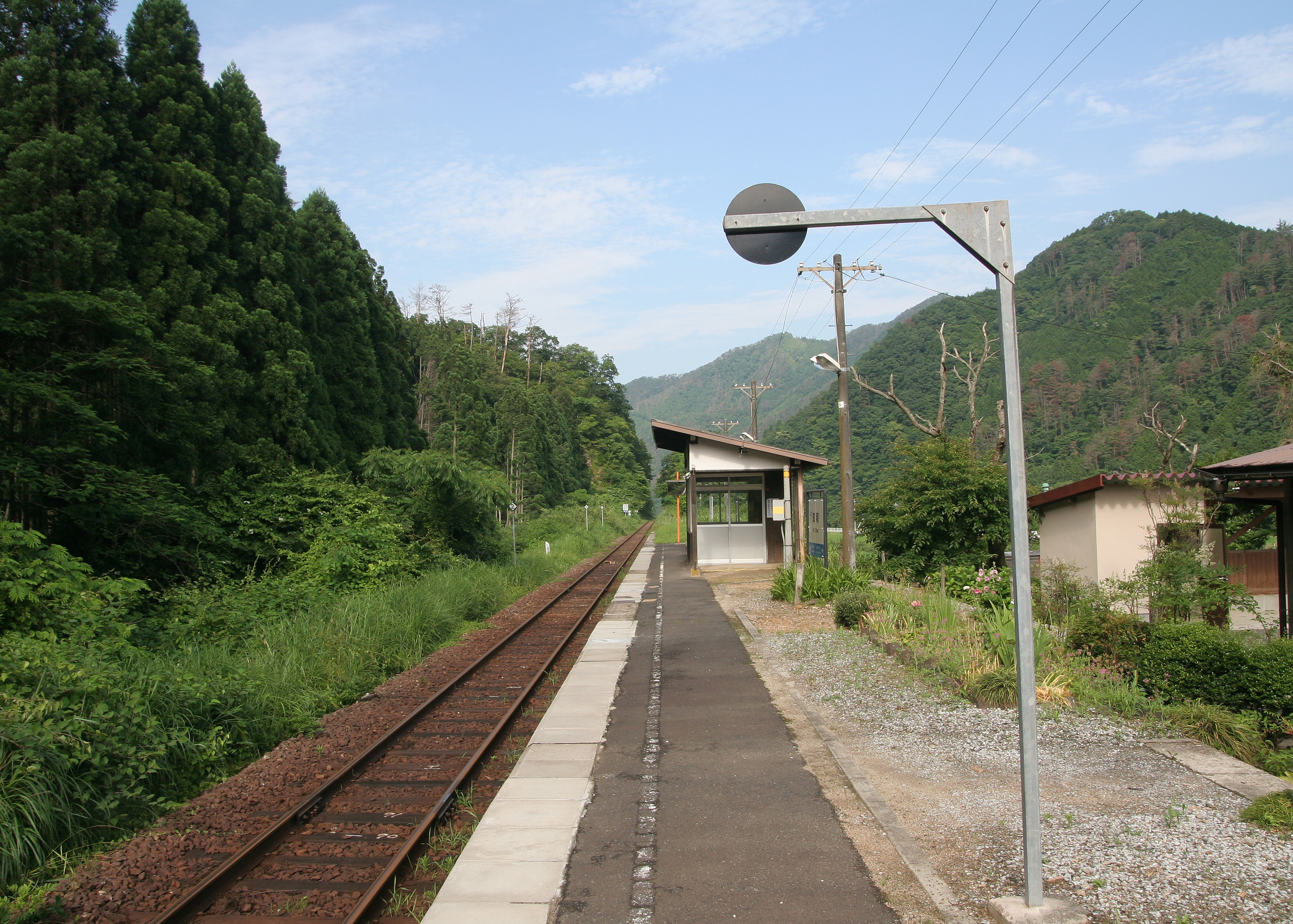 West Japan Railway Inbi Line Chiwa Station enclosure